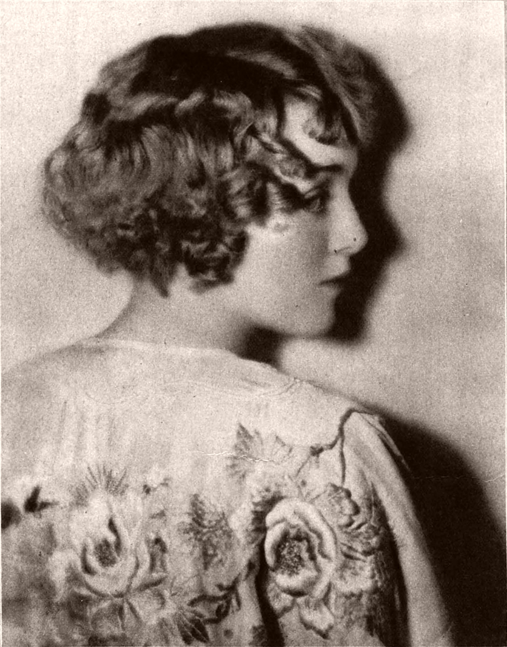 Portrait of silent-movie actress Mildred Davis by Kenneth Alexander